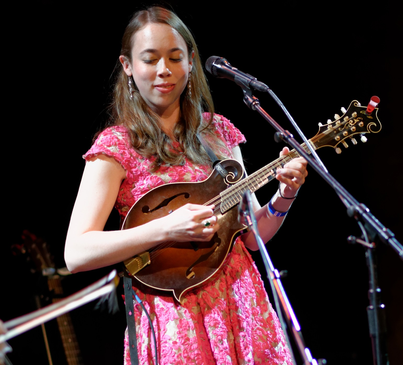 Sarah Jarosz performing live at the Great American Music Hall in San Francisco California on Tuesday April 29th, 2014.